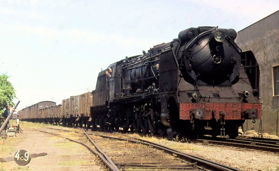 RENFE 4-8-2 steam Locomotive 241F.2243 with freight at Zaragoza Arabal, August 1970